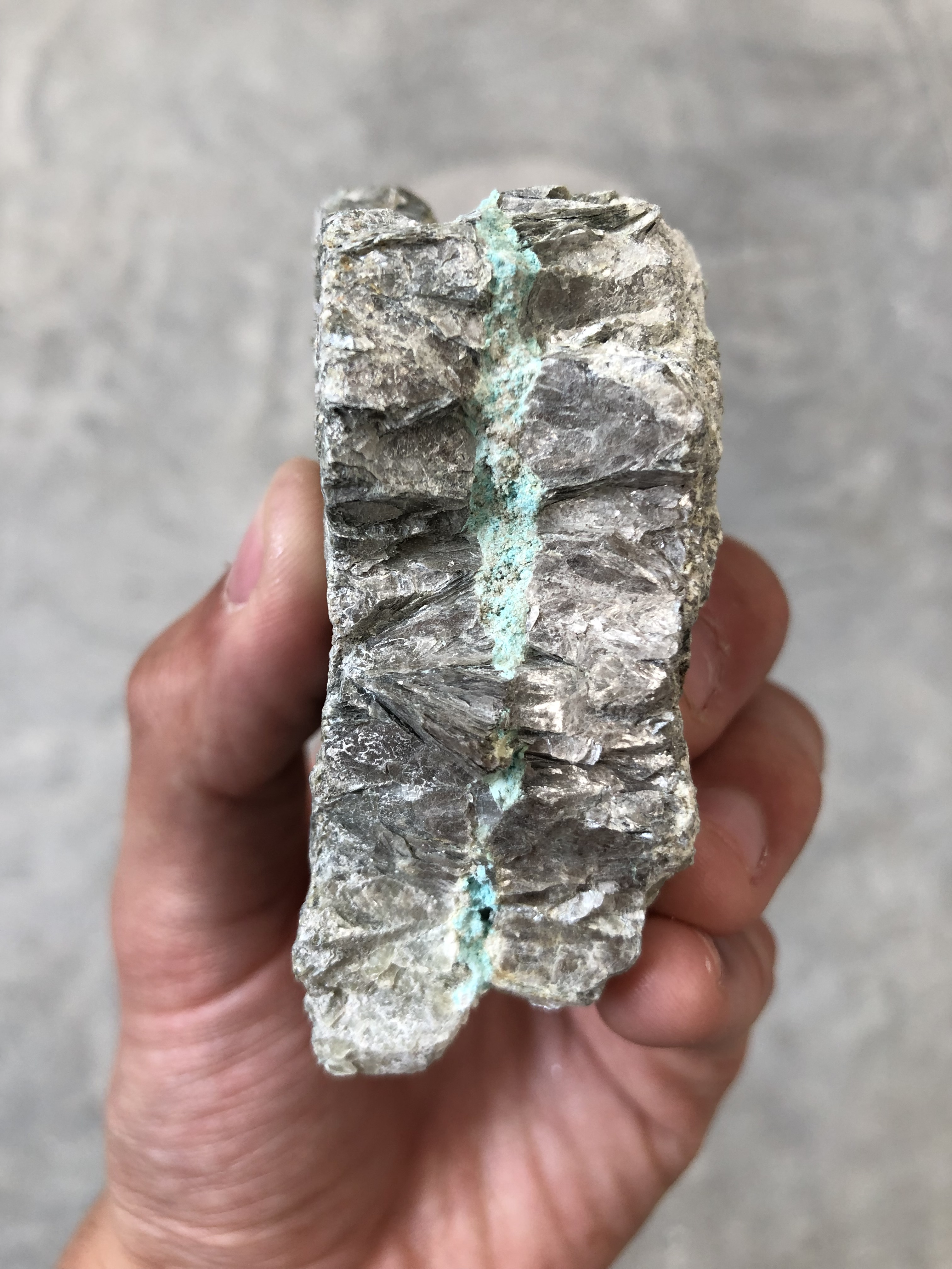 Large Polylithionite flakes on a sample found by MetAmpere near St Austell.